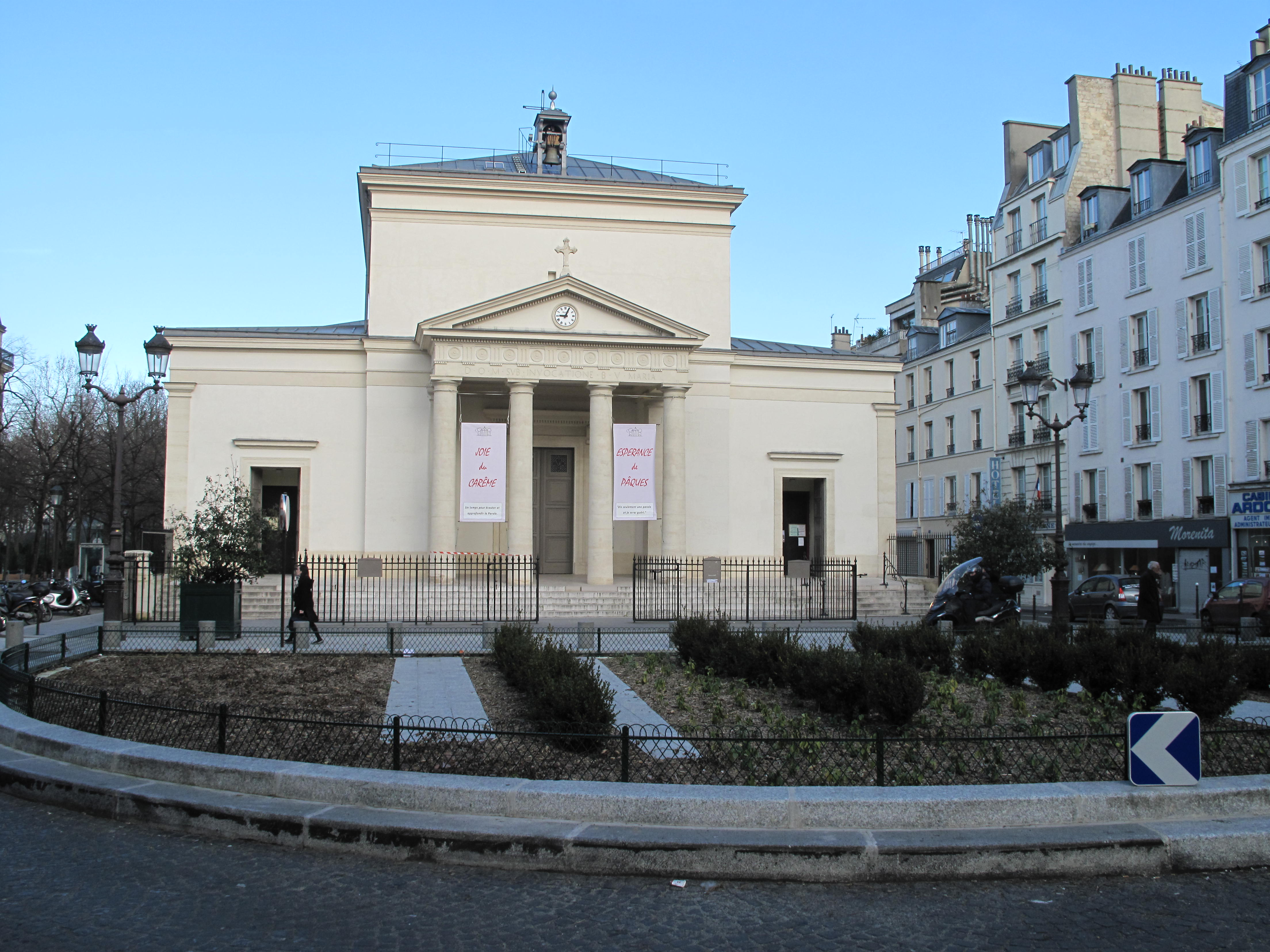 The church Sainte Marie des Batignolles, Paris 17th arr., France